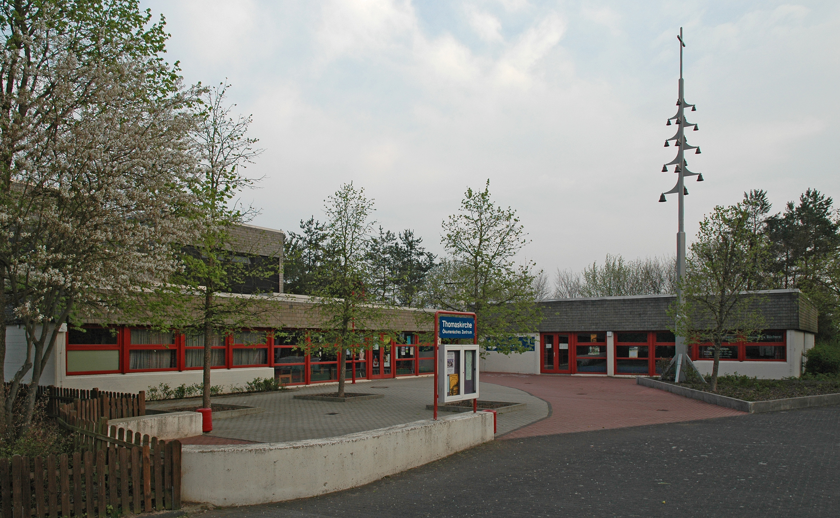 Thomas Church at Richtsberg in Marburg.